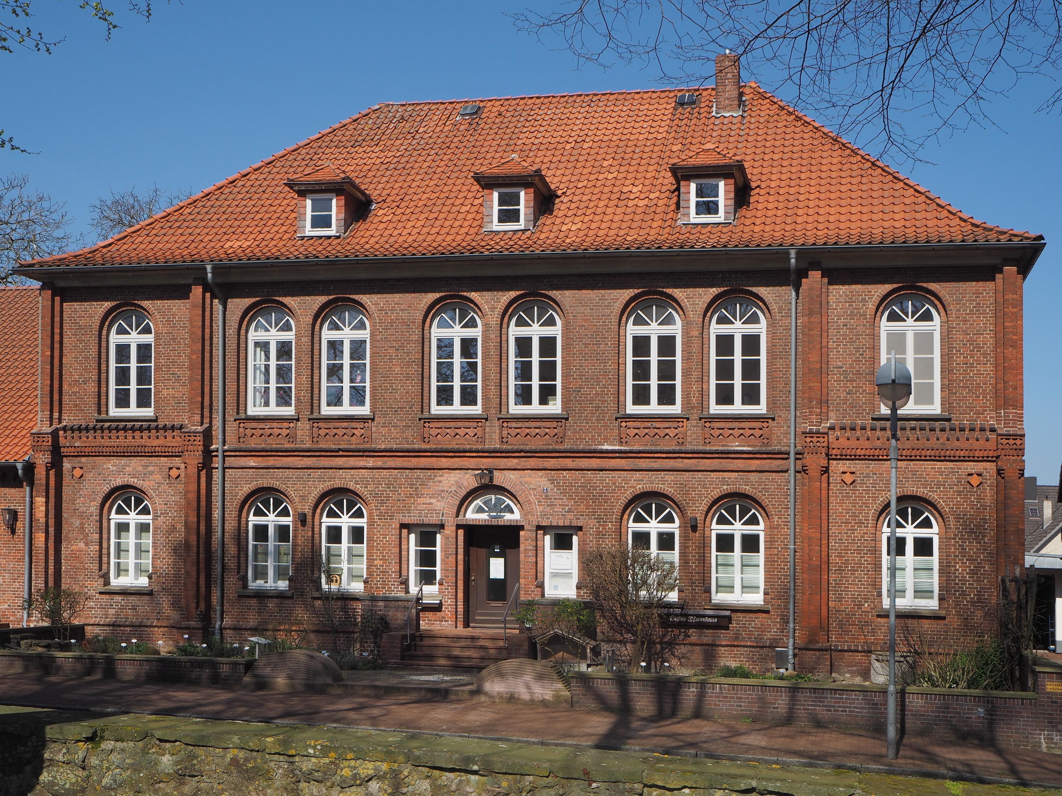 Harpstedt (Germany, Lower Saxony) - Protestant rectory - 1.Kirchstraße 2